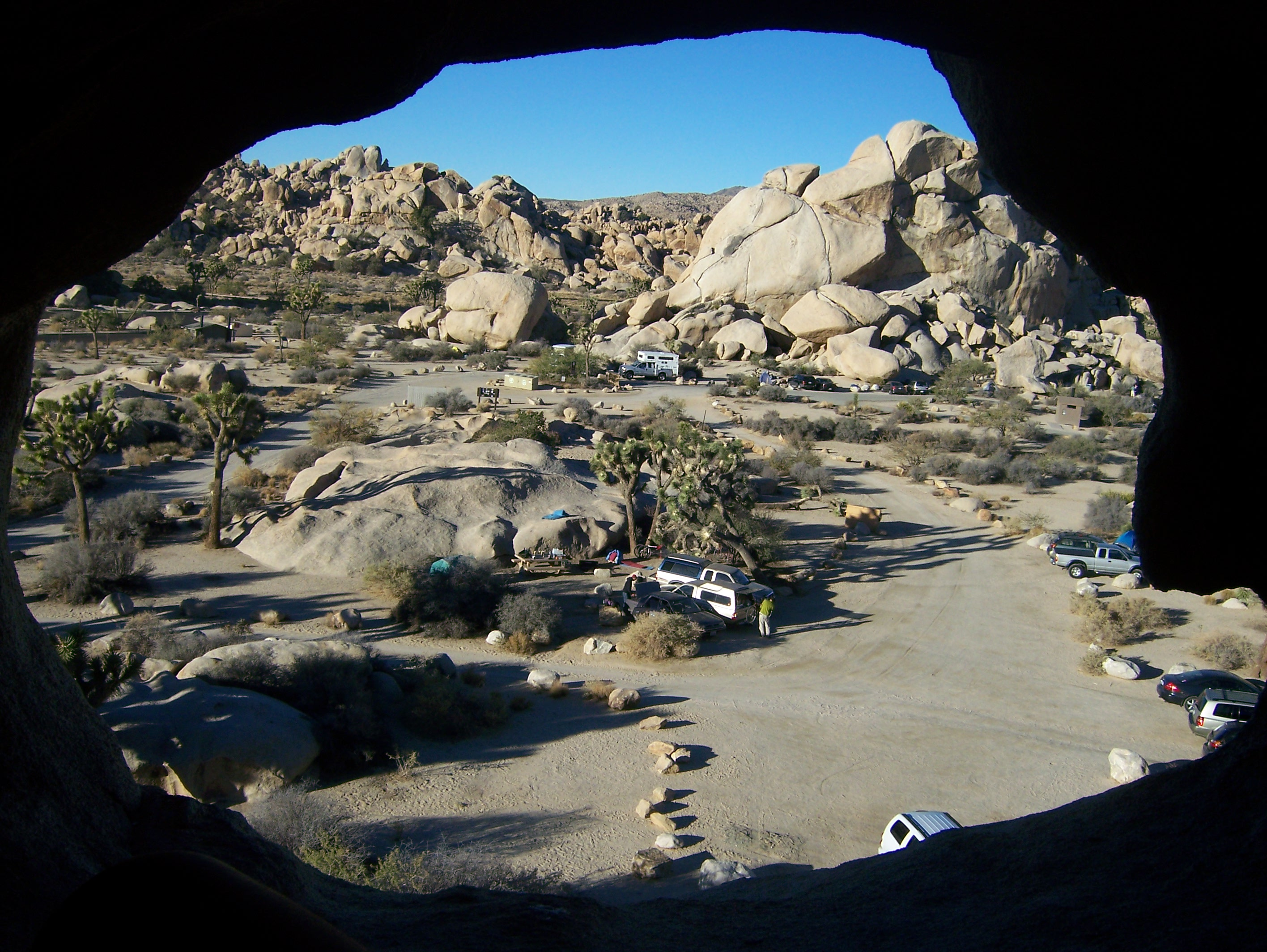 Joshua Tree National Park: Hidden Valley Campground from the "Space-station" the hole half way up the Chimney Rock .